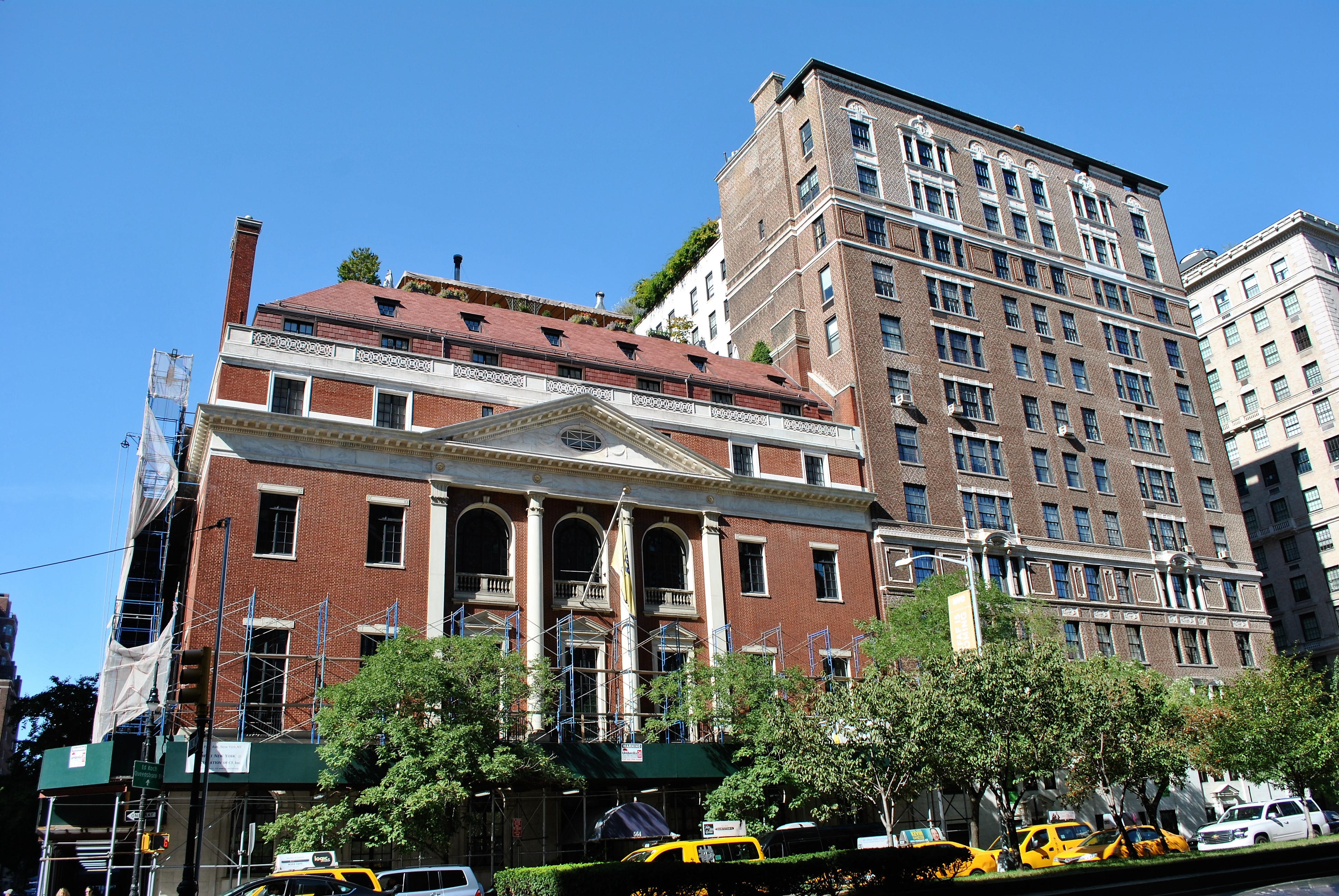 Image originally published in Queer Places: Retracing the Steps of LGBTQ people around the World Authored by Elisa Rolle